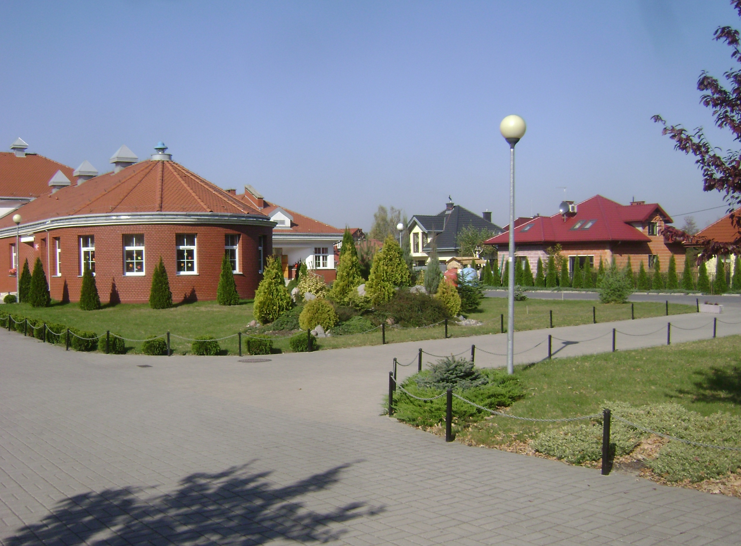 Poland. Gmina Lesznowola. Łazy 002